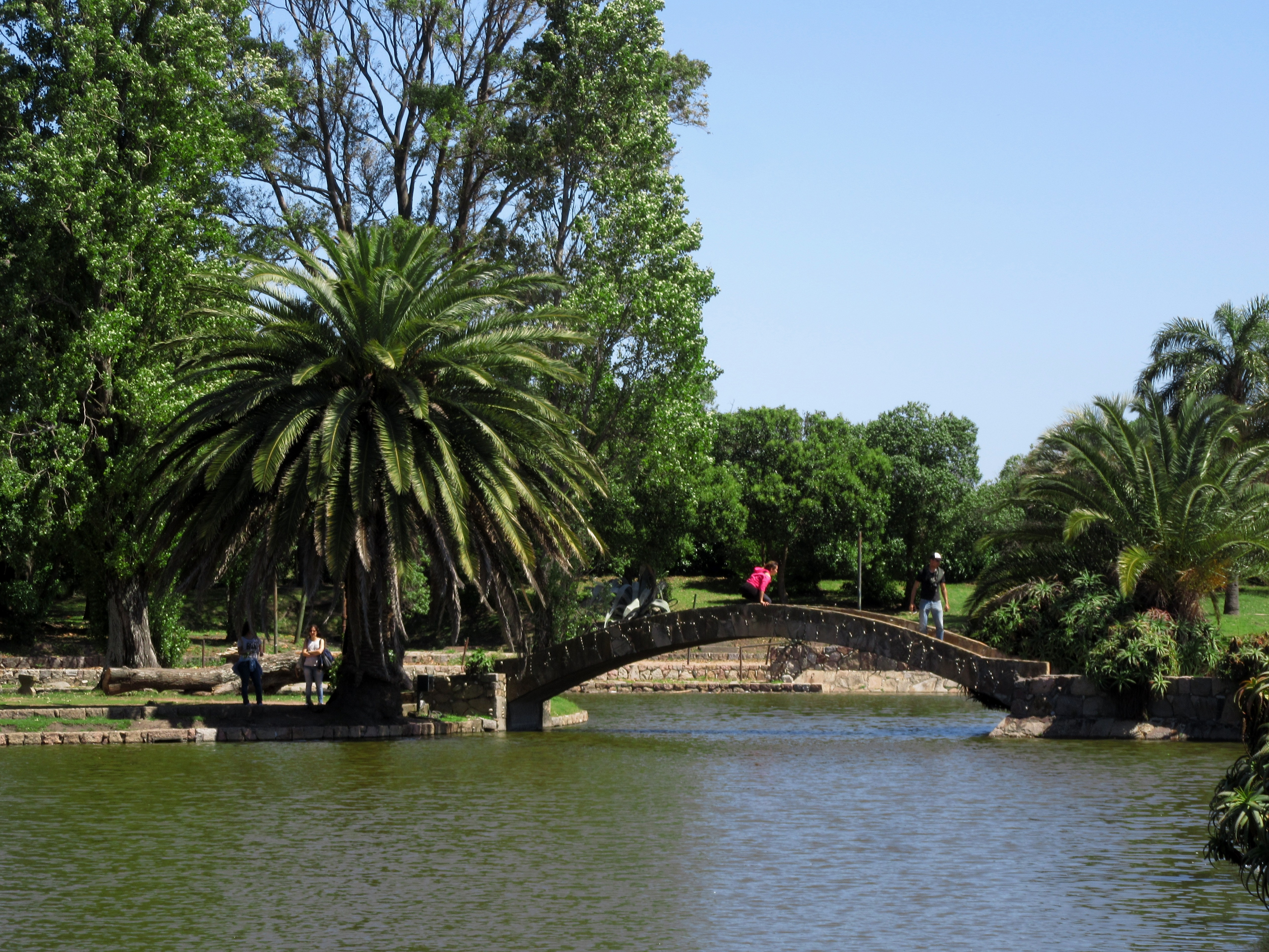 Montevideo